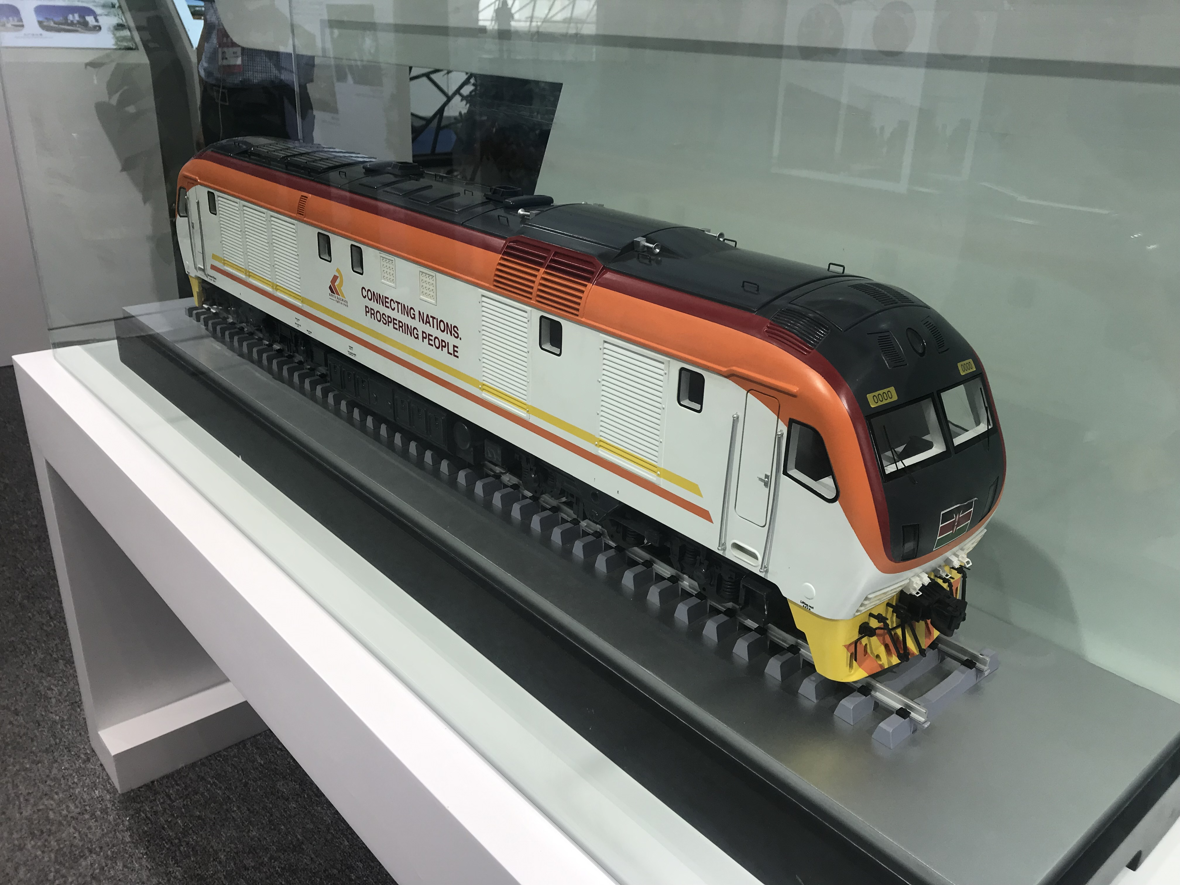 As an achievement of CRRC Qishuyan